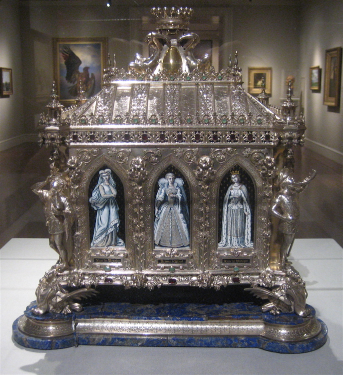 Félix Duban (France, 1797 - 1870) , Emile Froment-Meurice (France, 1837 - 1913) , Jules Wièse (Germany, Berlin, 1818 - 1890) , Maison Froment-Meurice , François-Désiré Froment-Meurice (France, 1802 - 1855) , Louis-Joseph Grisée (France, 1822-02-23 - 1867) , Jean-Jacques Feuchère (France, Paris, 1807 - 1852) Casket, 1867 Metalwork, Silver, gilt-metal, emeralds, garnets, lapis lazuli, enamel, velvet, a) Casket: 15 3/4 x 14 x 10 1/2 in. (40.01 x 35.56 x 26.67 cm); b) Base: 1 3/8 x 16 1/8 in. (3.49 x 40.96 cm); Overall: 17 5/8 x 16 1/8 x 12 1/2 in. (44.77 x 40.96 x 31.75 cm) Gift of Lynda and Stewart Resnick in honor of the museum's 40th anniversary through the 2002 Collectors Committee (M.2005.174a-b) Wikipedia Loves Art at the Los Angeles County Museum of Art This photo of item # M.2005.174a at the Los Angeles County Museum of Art was contributed under the team name "artifacts" as part of the Wikipedia Loves Art project in February 2009. Los Angeles County Museum of Art The original photograph on Flickr was taken by Beesnest McClain—please add a comment to the original Flickr page whenever a use has been made on Wikipedia or another project. Project galleries on Flickr: this institution, this team